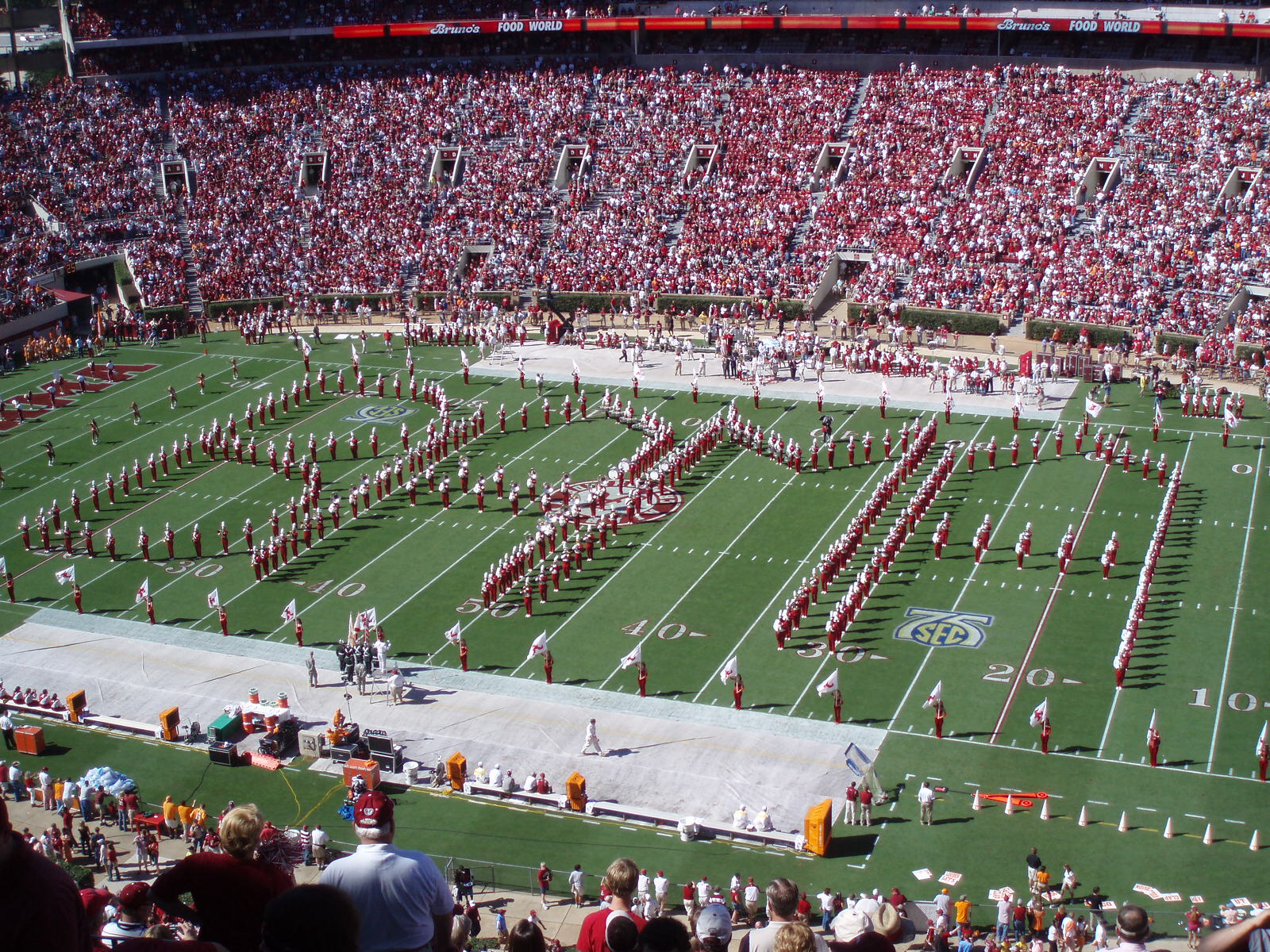 The University of Alabama Million Dollard Band performs a pre-game show at a football game.